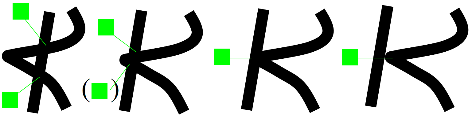 Shifting